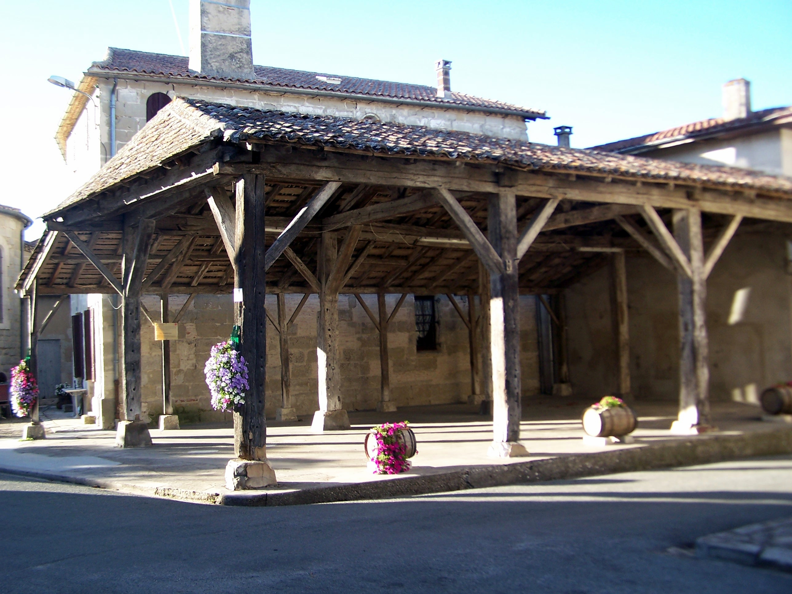 The river Dropt in Allemans-du-Dropt (Lot-et-Garonne, France)